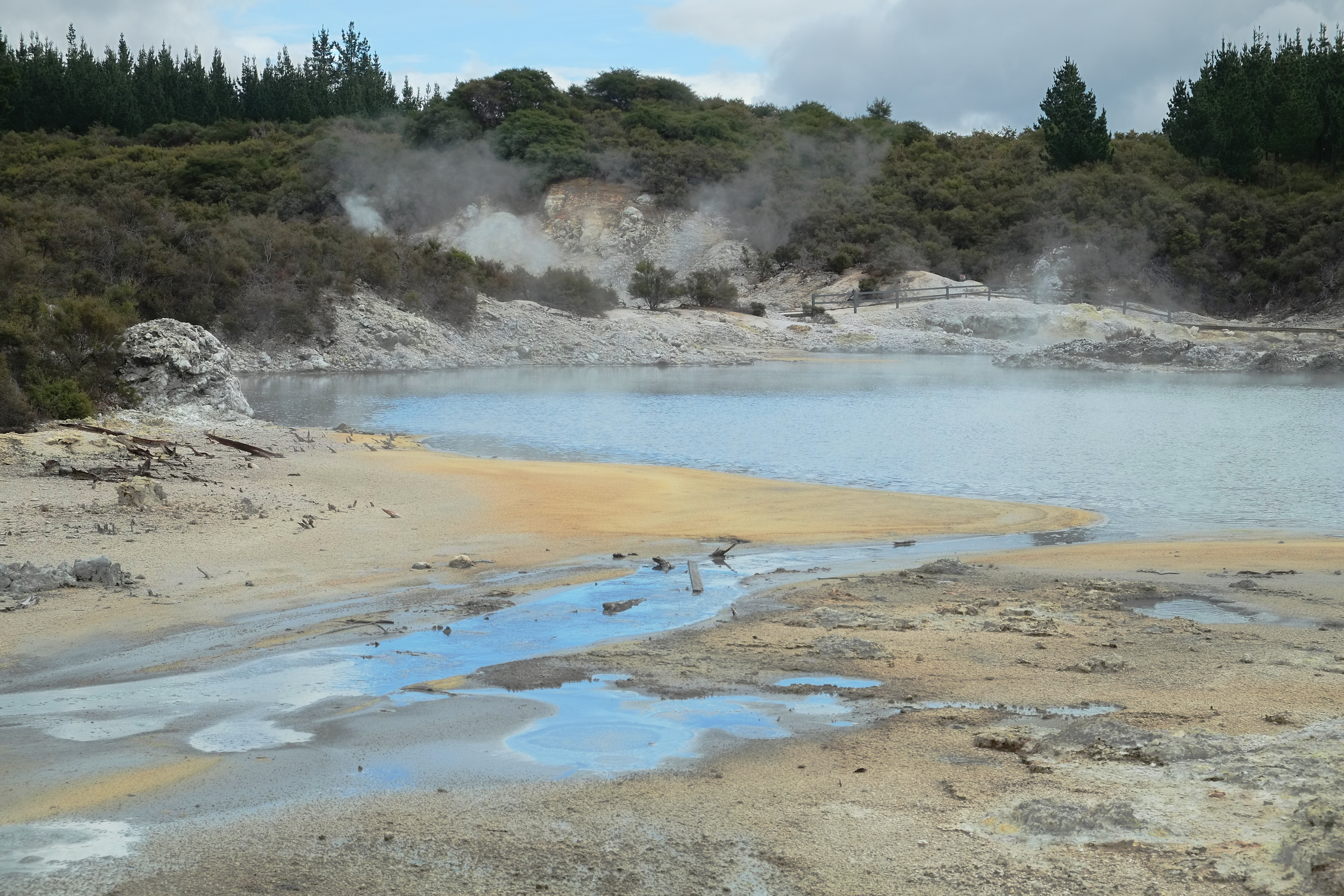 View across the 'hot lakes' in Hell's Gate thermal area (Tikitere)